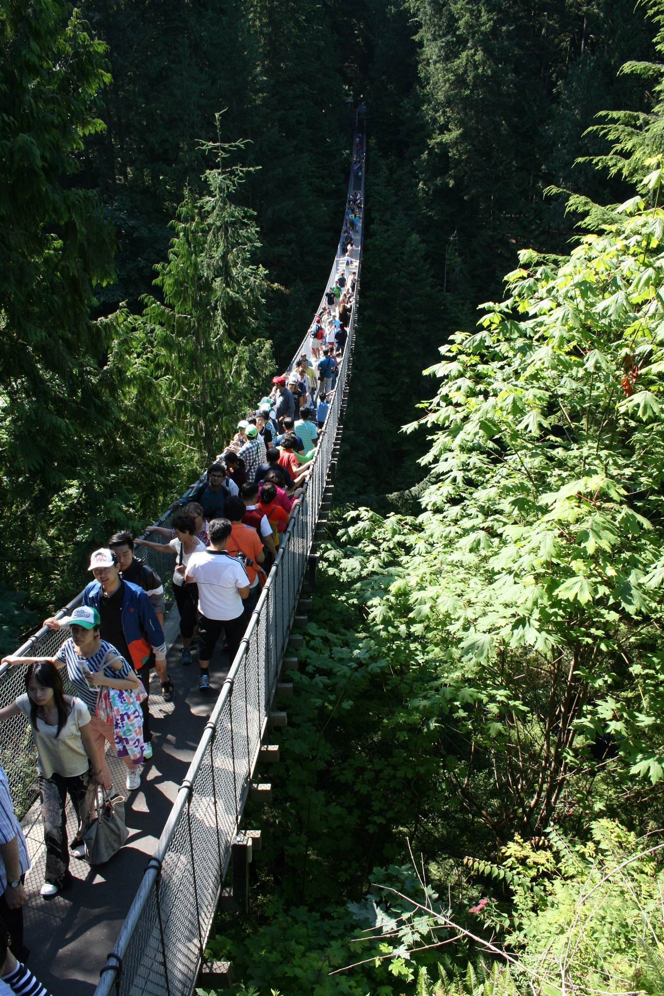 500px provided description: Capilano Suspension Bridge [#park ,#canada ,#people ,#vancouver ,#nature ,#river ,#north ,#british ,#bridge ,#crow ,#bc ,#columbia ,#national ,#british columbia ,#suspension ,#indiana jones ,#capilano ,#macgyver ,#psych]